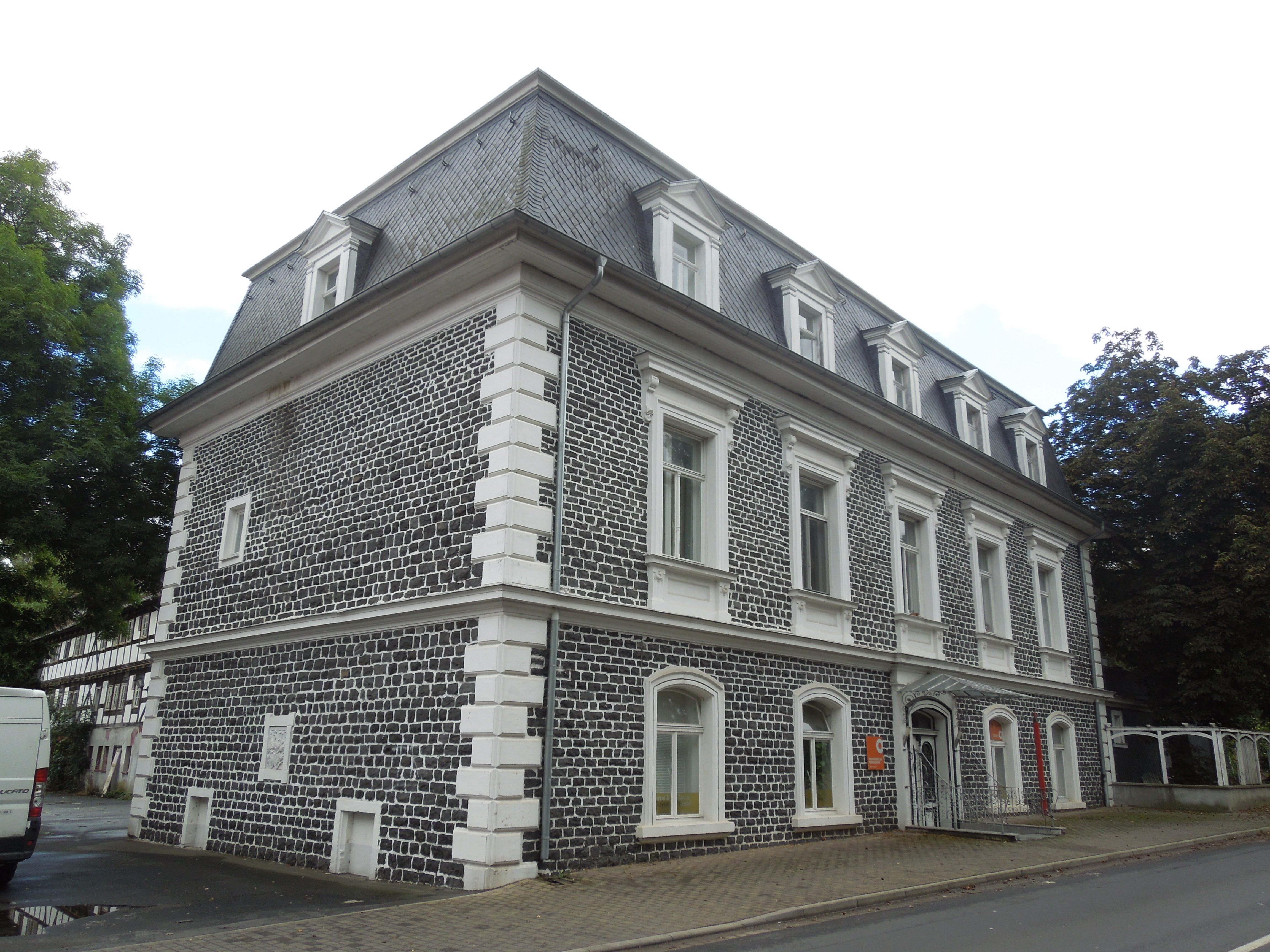 The facade of the castle in Loshausen